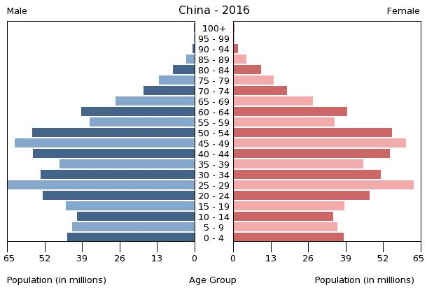 The population pyramid of China illustrates the age and sex structure of population and may provide insights about political and social stability, as well as economic development. The population is distributed along the horizontal axis, with males shown on the left and females on the right. The male and female populations are broken down into 5-year age groups represented as horizontal bars along the vertical axis, with the youngest age groups at the bottom and the oldest at the top. The shape of the population pyramid gradually evolves over time based on fertility, mortality, and international migration trends.